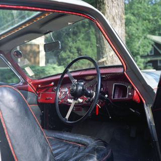 photo of the daimler silver flash taken ca.1967